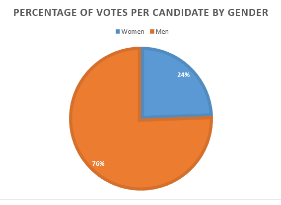 Vietnam election 2011 results show that females made up 24.4% of seats and males 75.6% of seats. Figure is rounded.